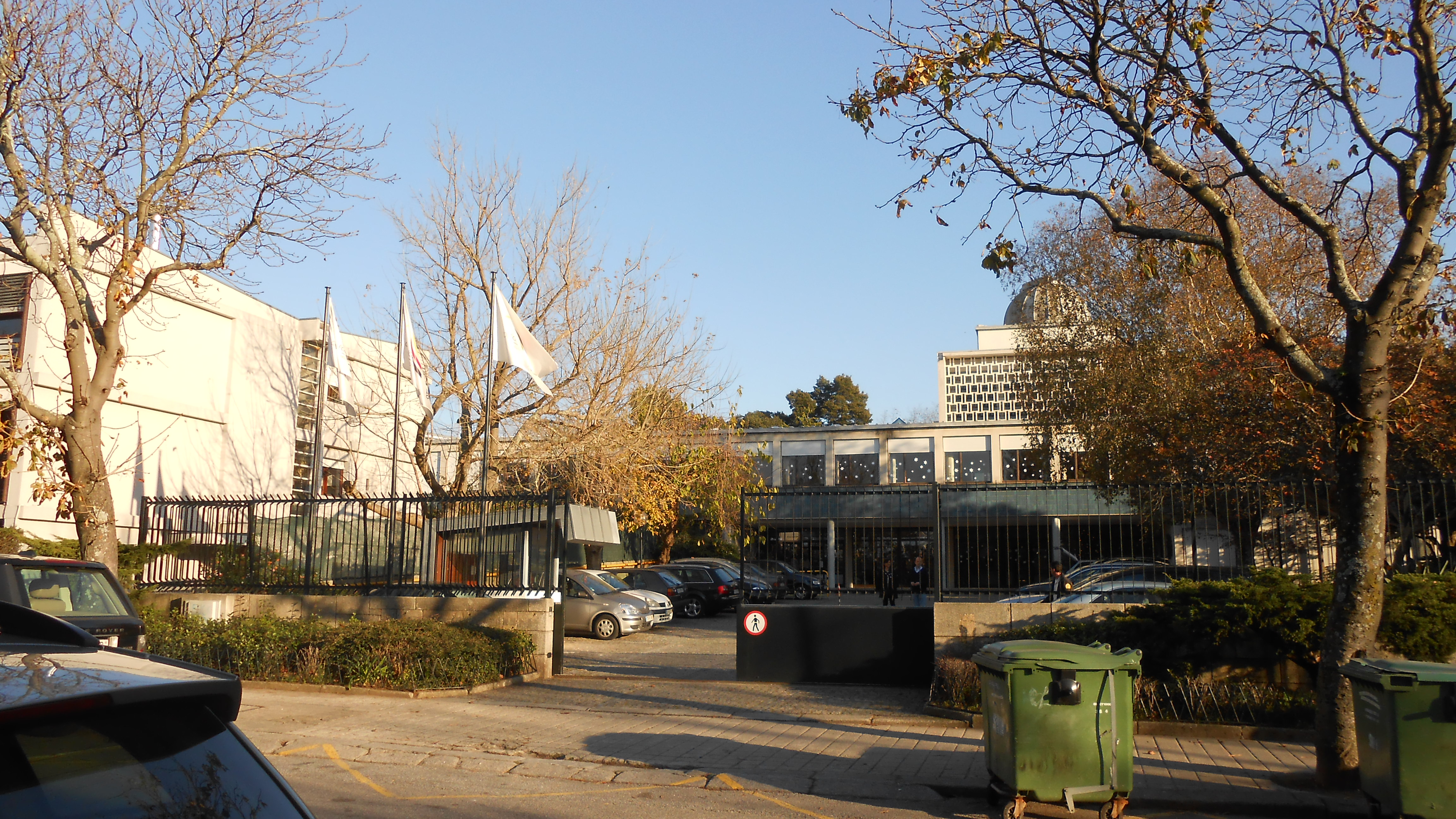 Entrance to the Deutsche Schule zu Porto (german school in Oporto), november 2015.